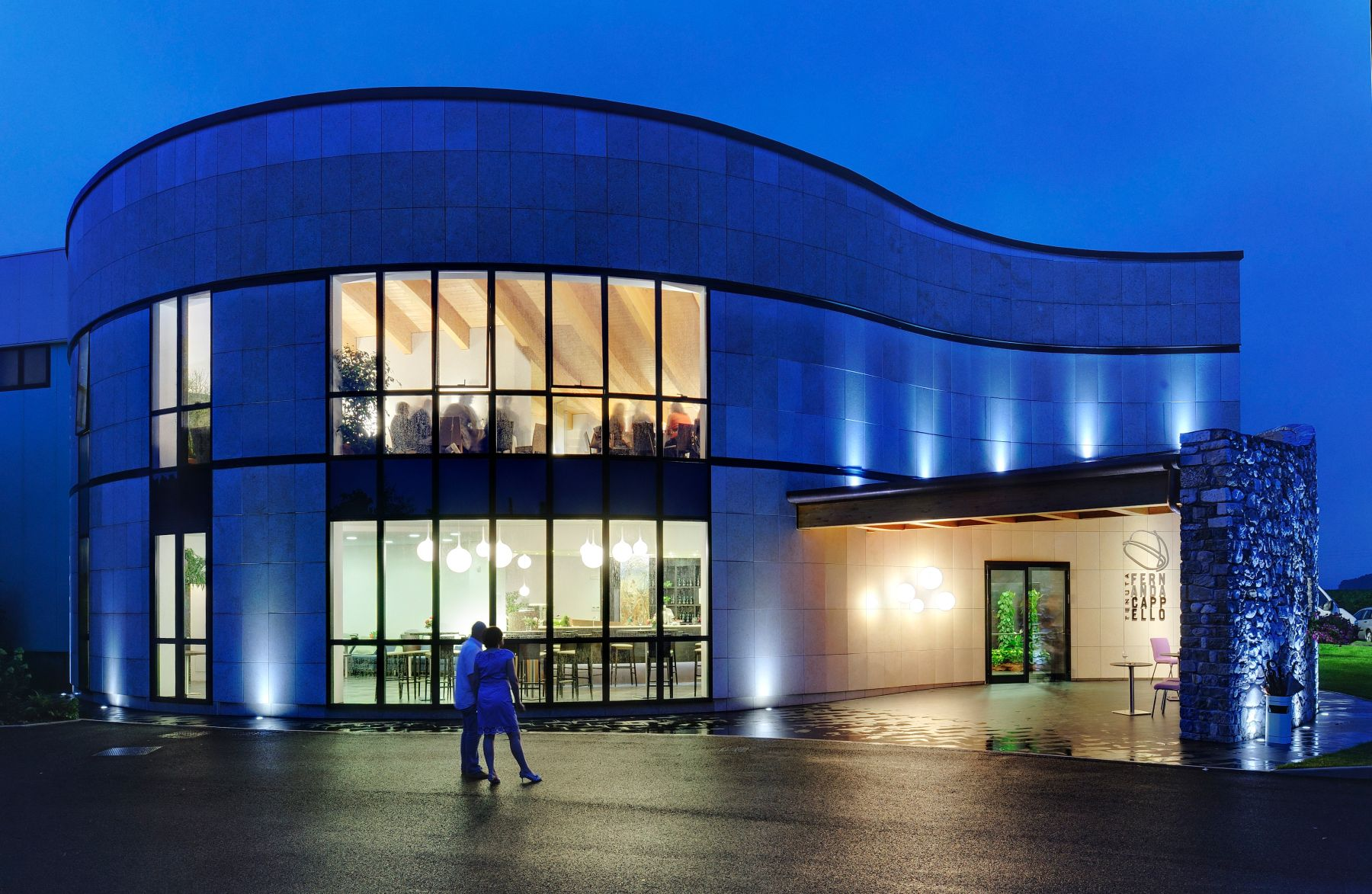 It's located at Northern Italy, belonging with Alps mountain